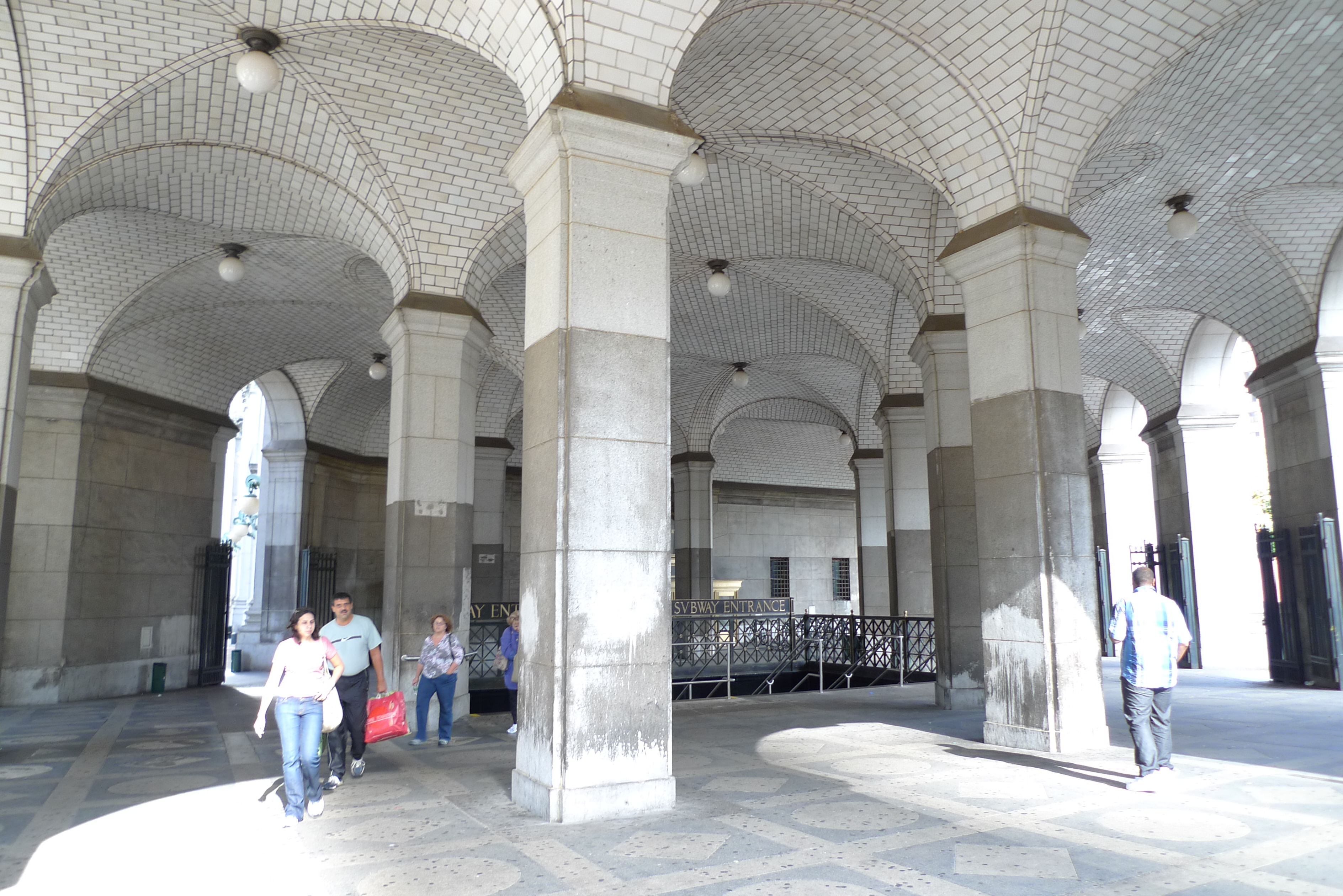 Looking north at interior of Brooklyn Bridge-City Hall Station in New York City